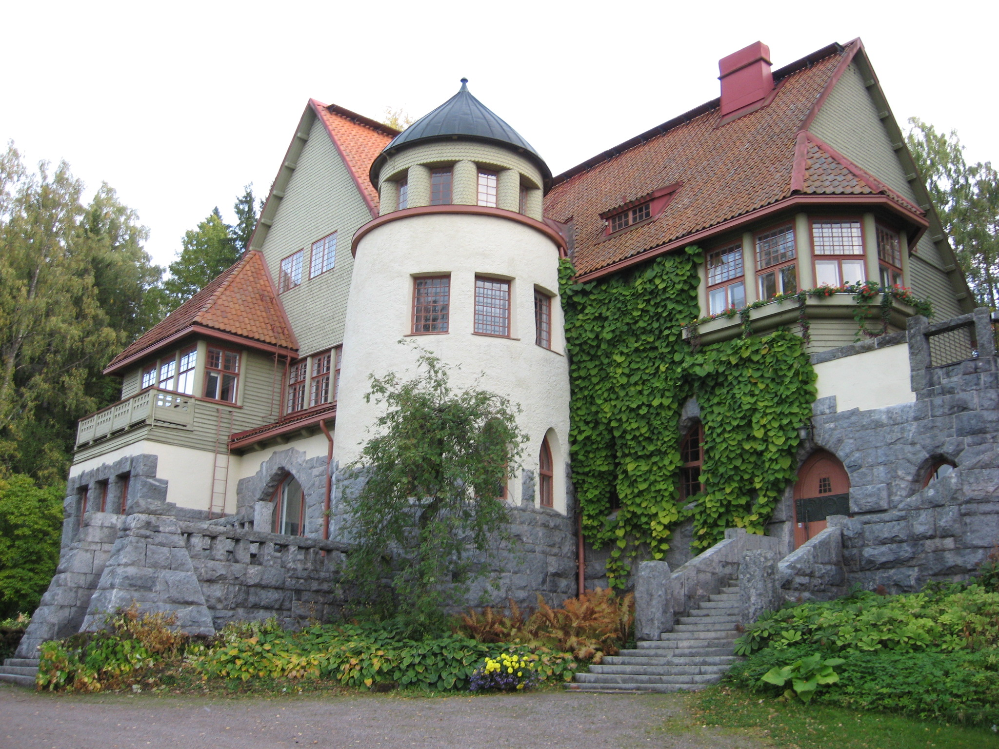 Villa Hvittorp near lake Vitträsk.